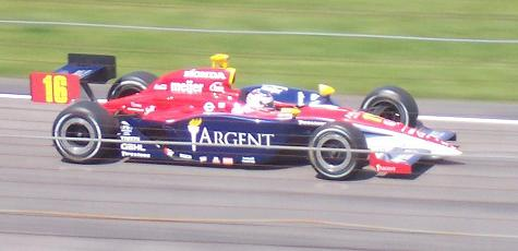 Picture of Danica Patrick at the 2006 Indianapolis 500.